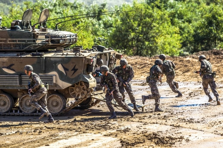 Soldiers from Republic of Korea army 20th Mechanized infantry division disembarking from K21 IFV Yangpyeong, South Korea 2013